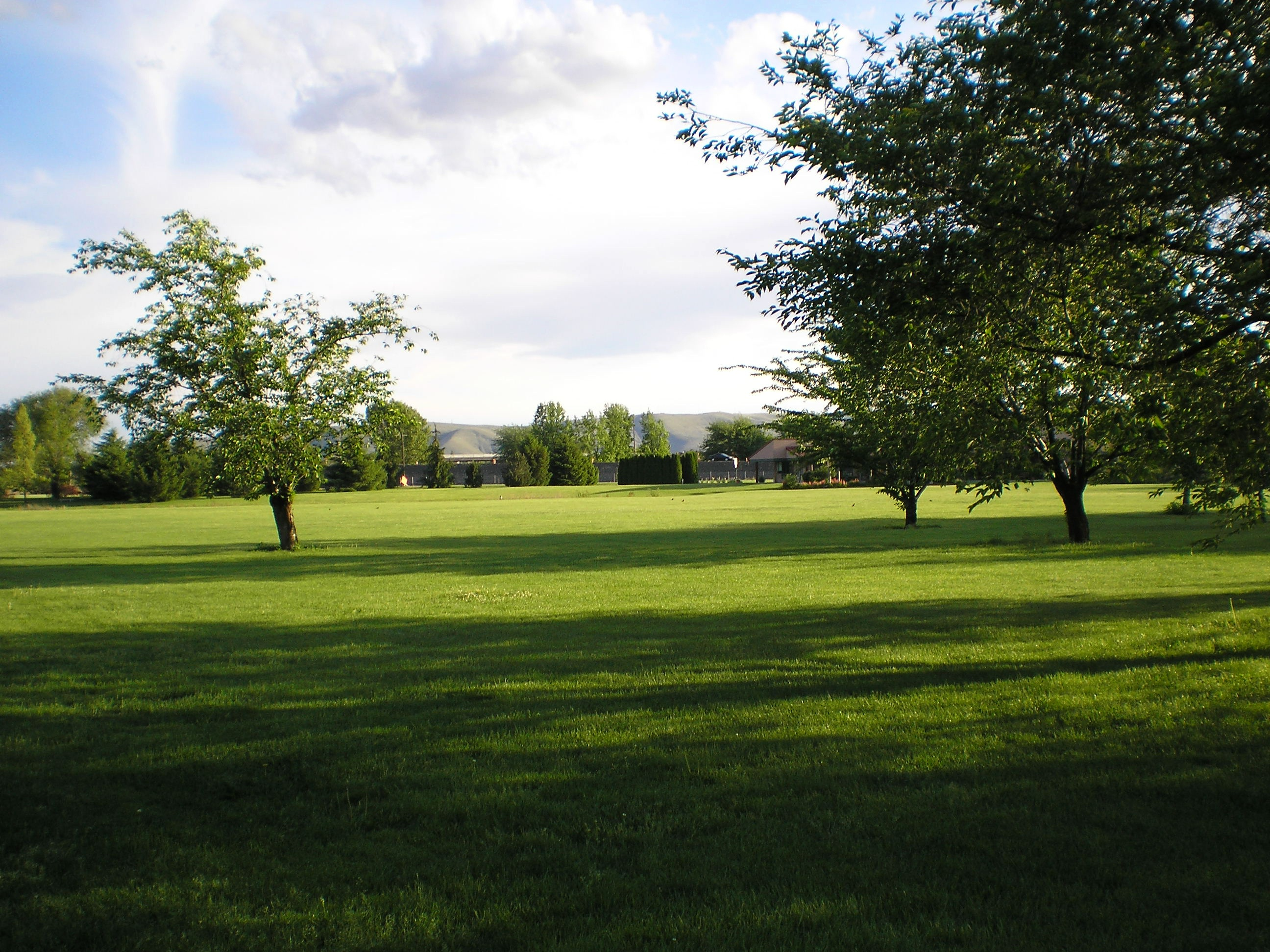 Part of Yakima Arboretum. Taken by AirLiner